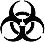 Official Biohazard symbol on the entrance to the area in Japan